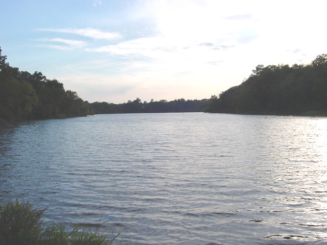 This is an image photographed by me at Moraine View State Recreation Area, in the state of Illinois, USA.